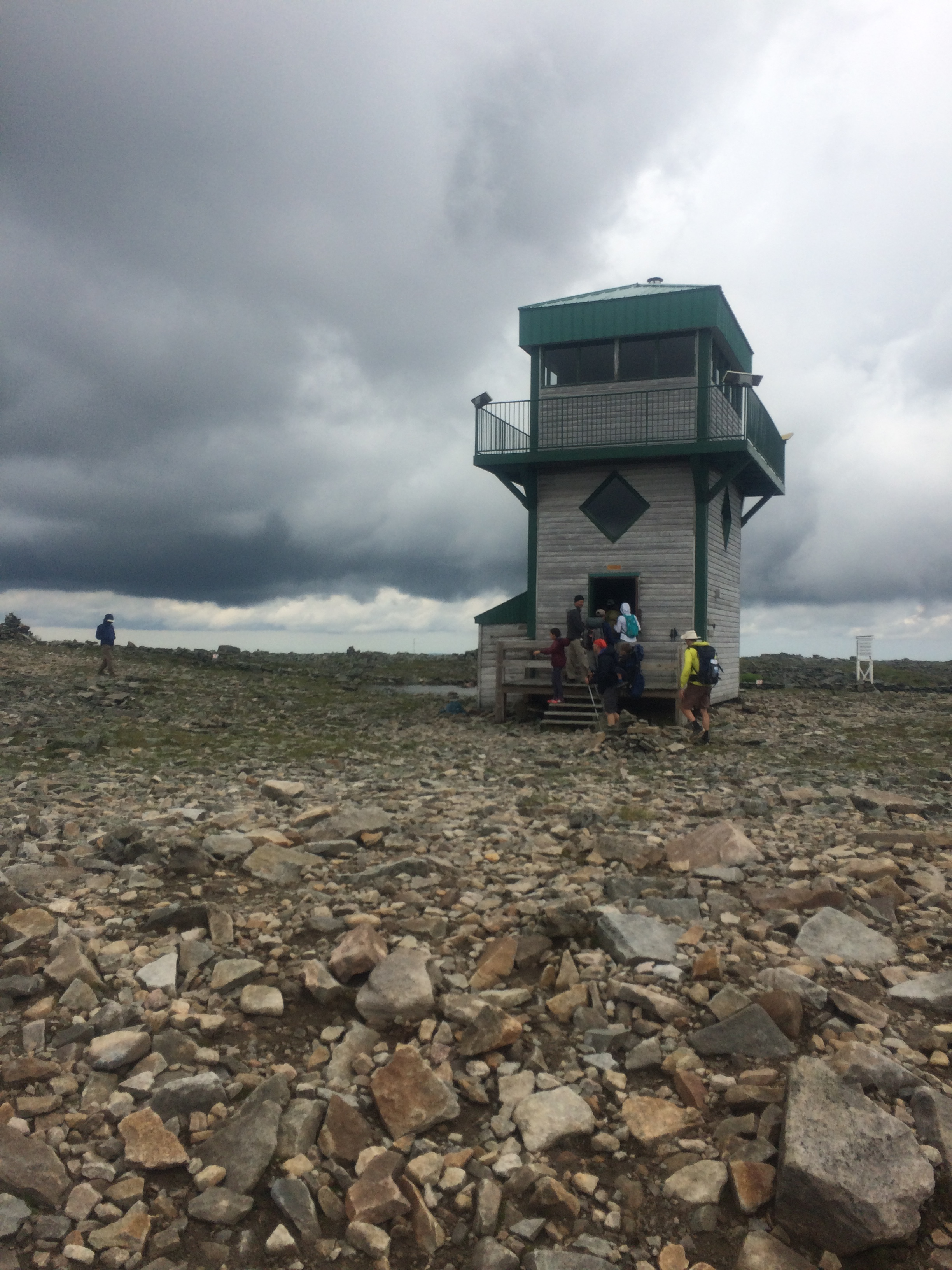 Abri au sommet du Mont Jacques-Cartier, Parc de la Gaspésie, Québec, Canada